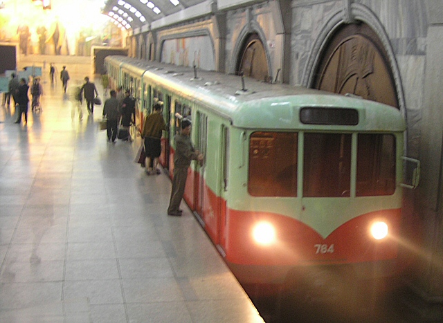 Metro in Pyongyang. Puhung station (부흥).